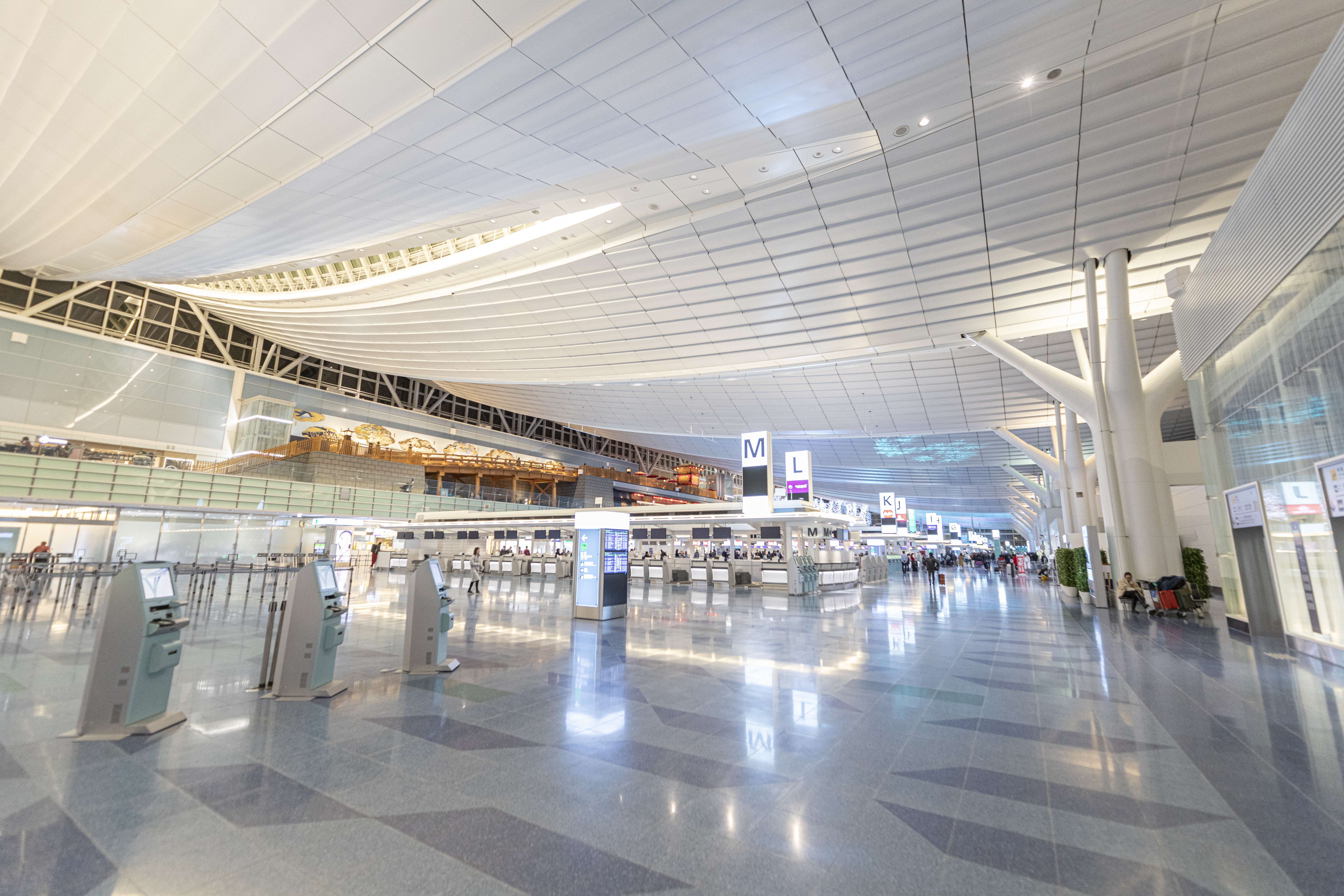 Terminal 3, Haneda Airport, Tokyo, Japan